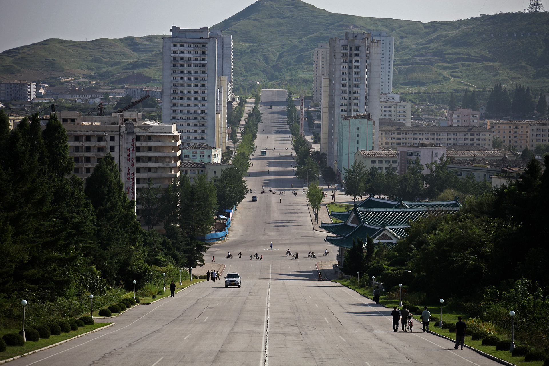 Kaesong has one large main road, on which only some cars travel.